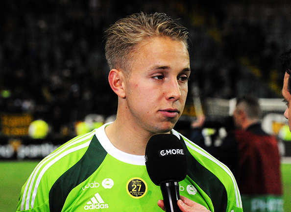 Patrik Carlgren, AIK goalkeeper